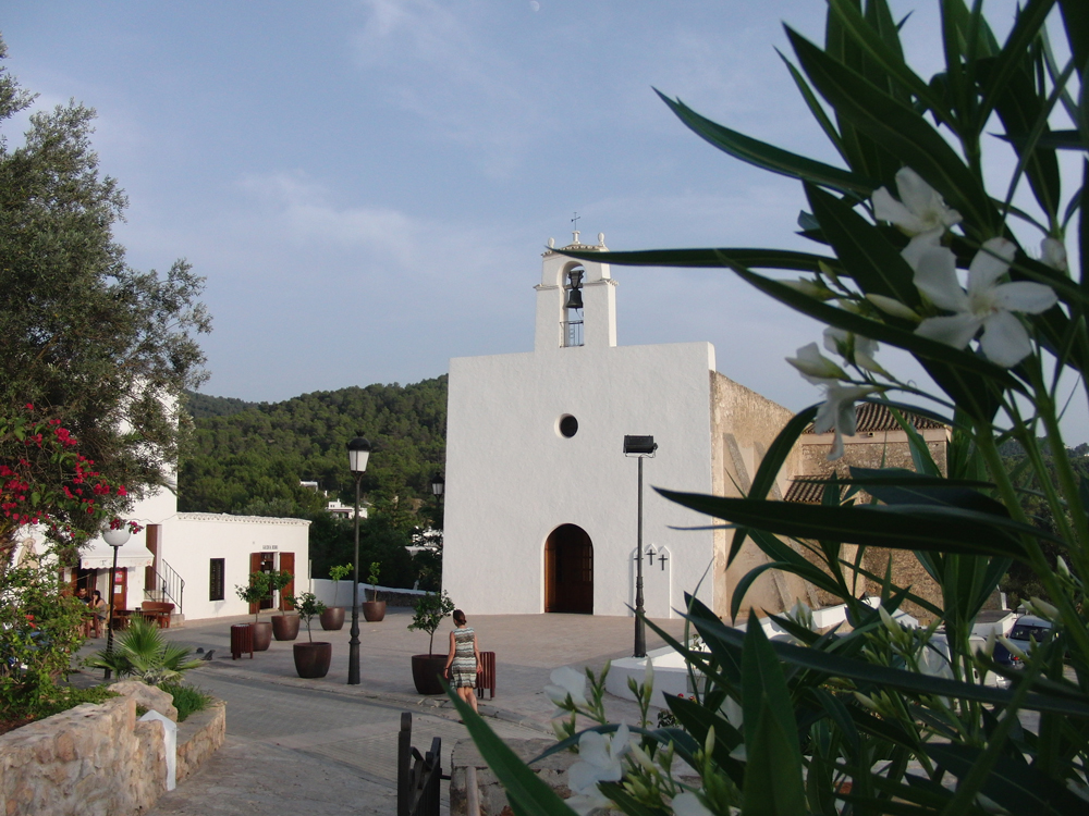 Church of San Agustin, Ibiza, Baleares, Spain